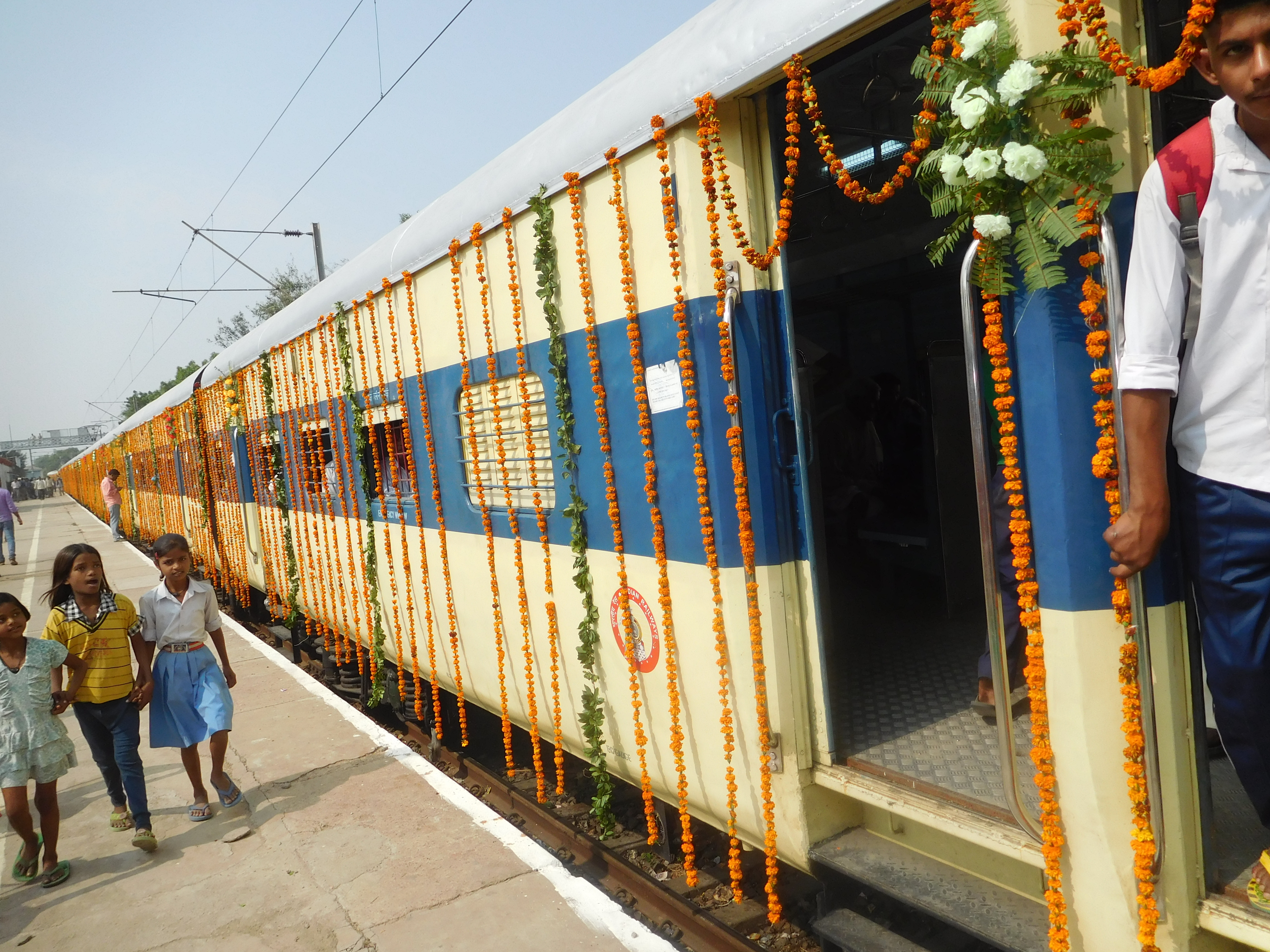 A new memo passenger train from Phaphund -Rura to Kanpur Central inaugurated by State Railway Minister Manoj Kumar Sinha on 07/11/2015